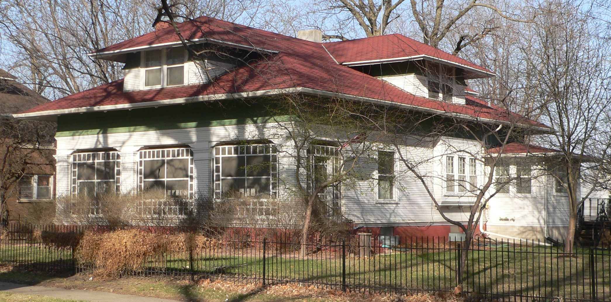 James P. Newton house, located at 2312 Nebraska Street in Sioux City, Iowa; seen from the southwest.